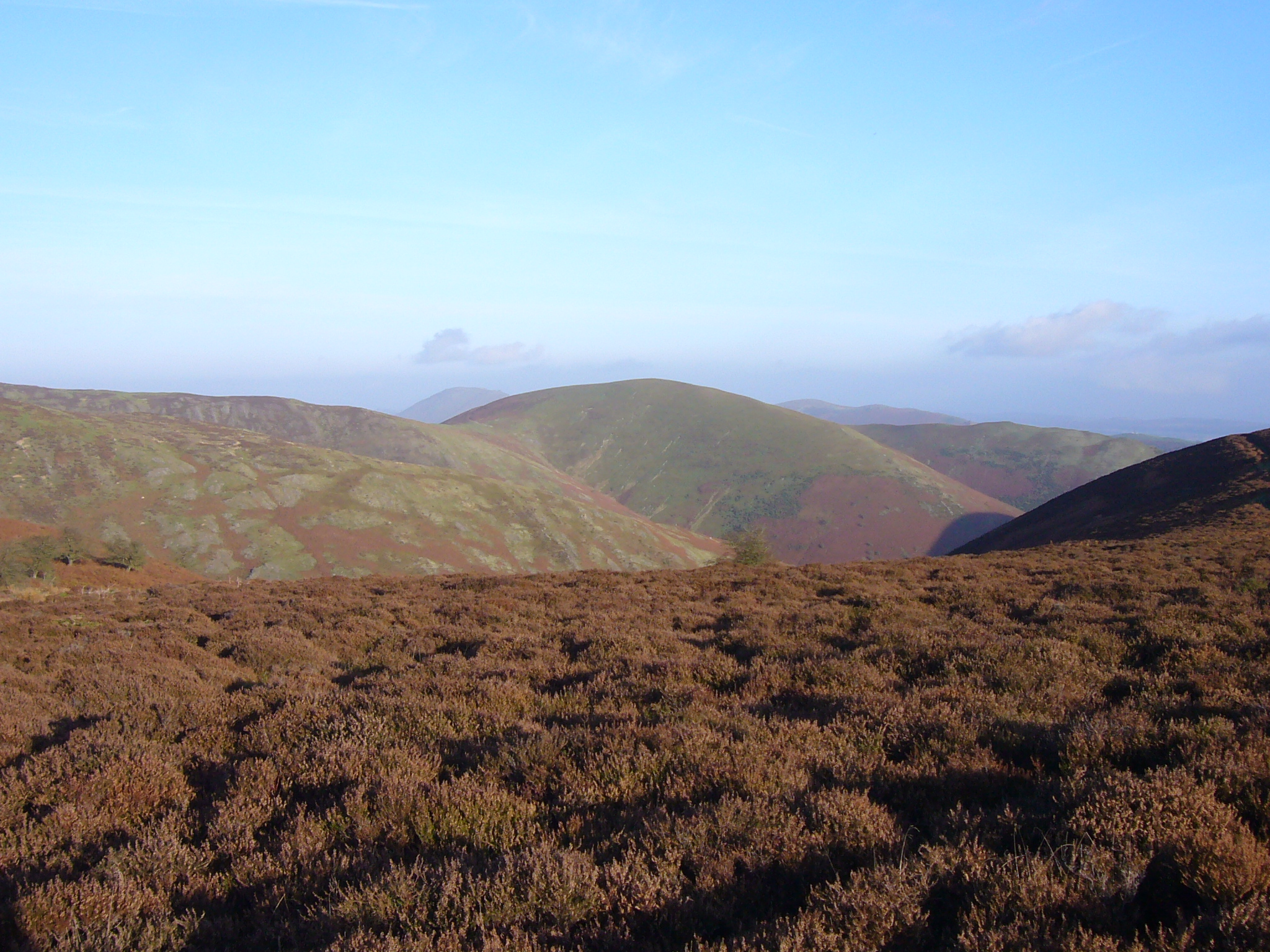 On Long Mynd - Shropshire